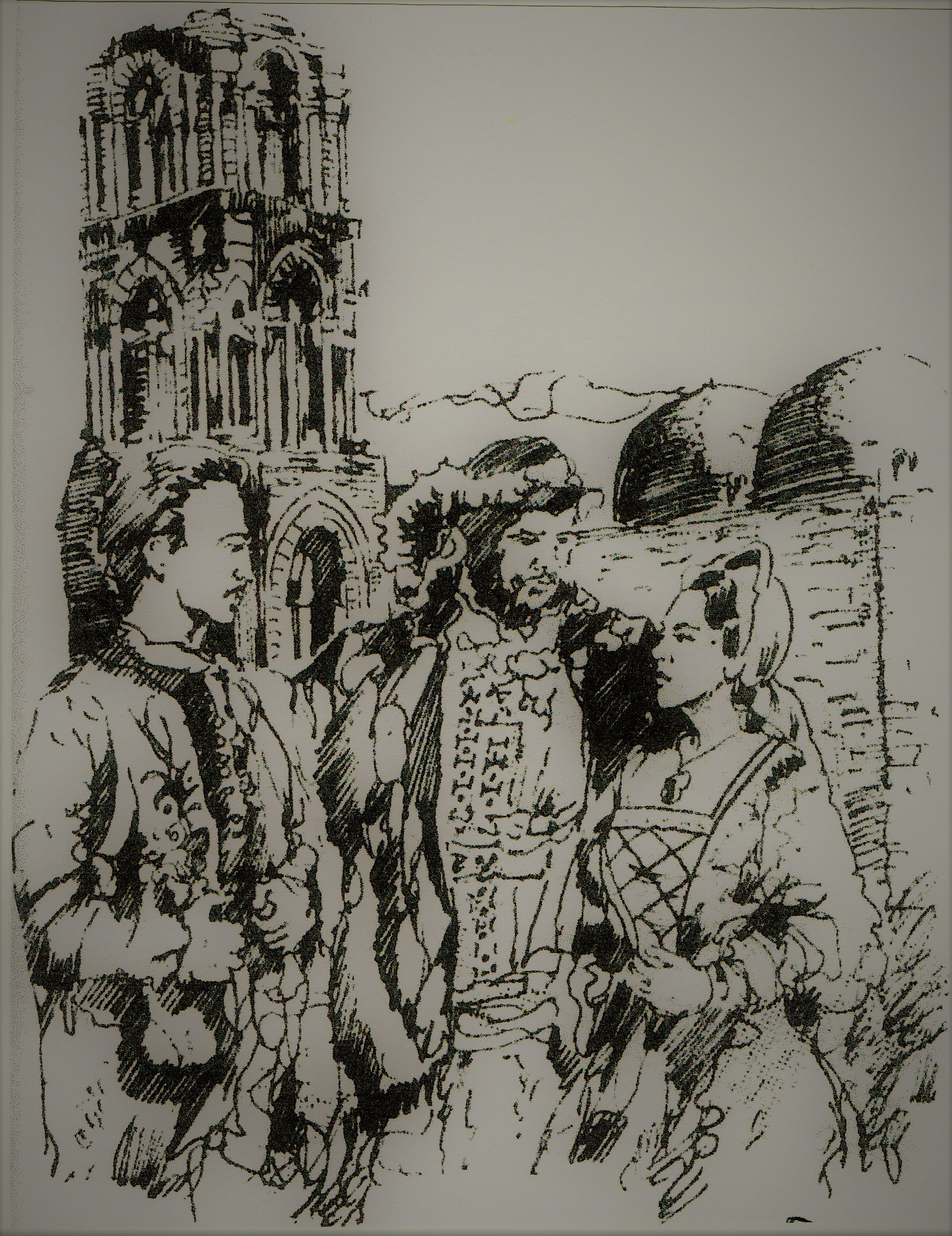 Scan from a printing of the book Racconto popolare del Vespro Siciliano by Michele Amari, depicting Macalda di Scaletta (right) and Alaimo da Lentini (the center), protagonists of the Sicilian Vespers, with the background of Palermo